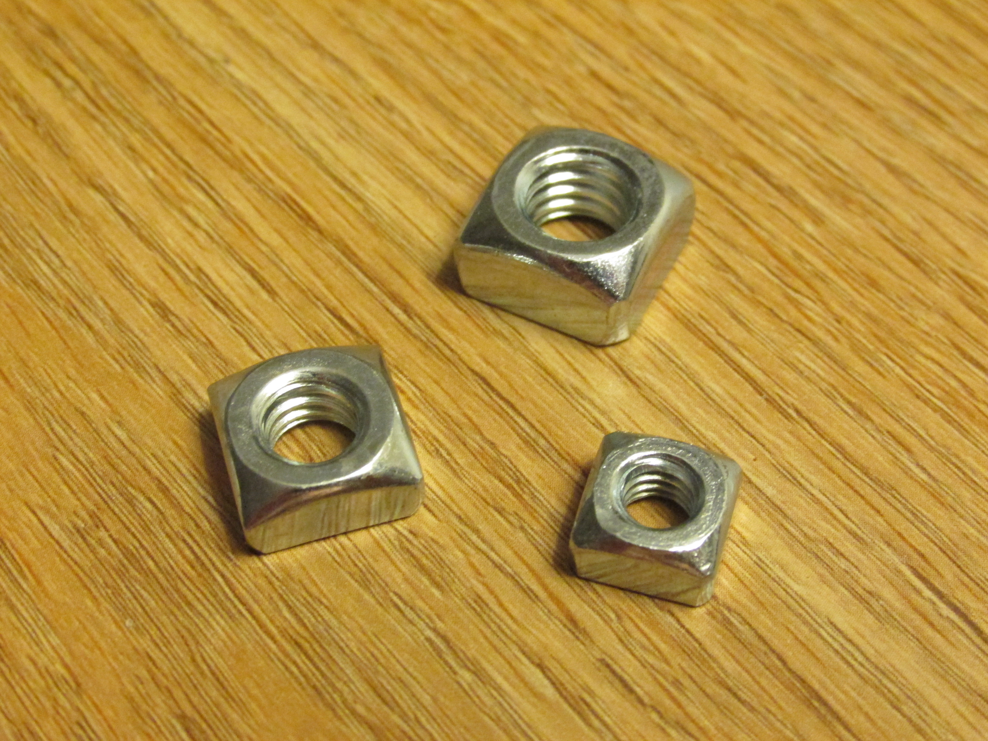 Square nuts from Ace Hardware, Concord Massachusetts - 2014